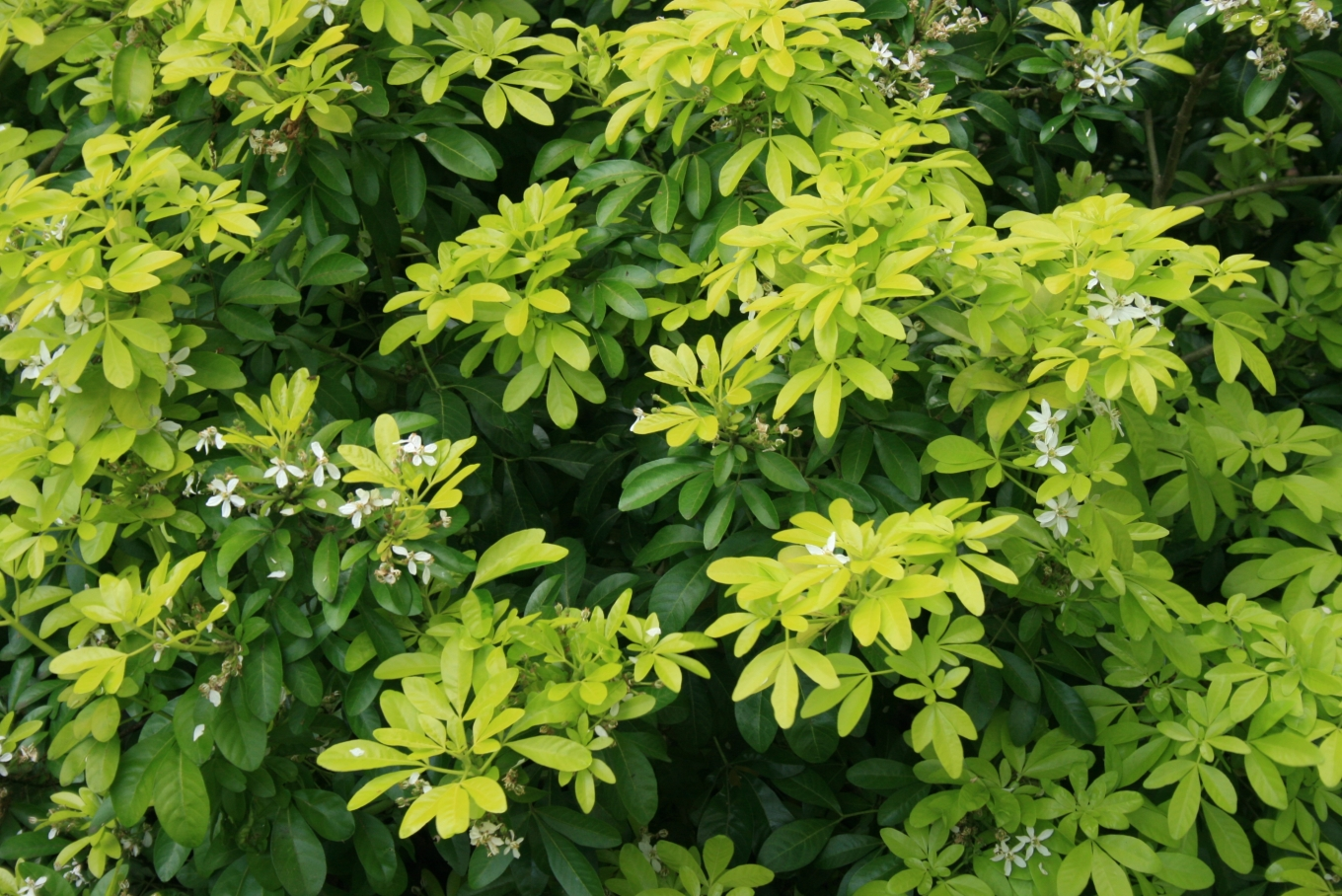 Choisya ternata: Habitus.